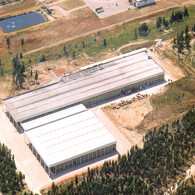 TemaHome factory air view